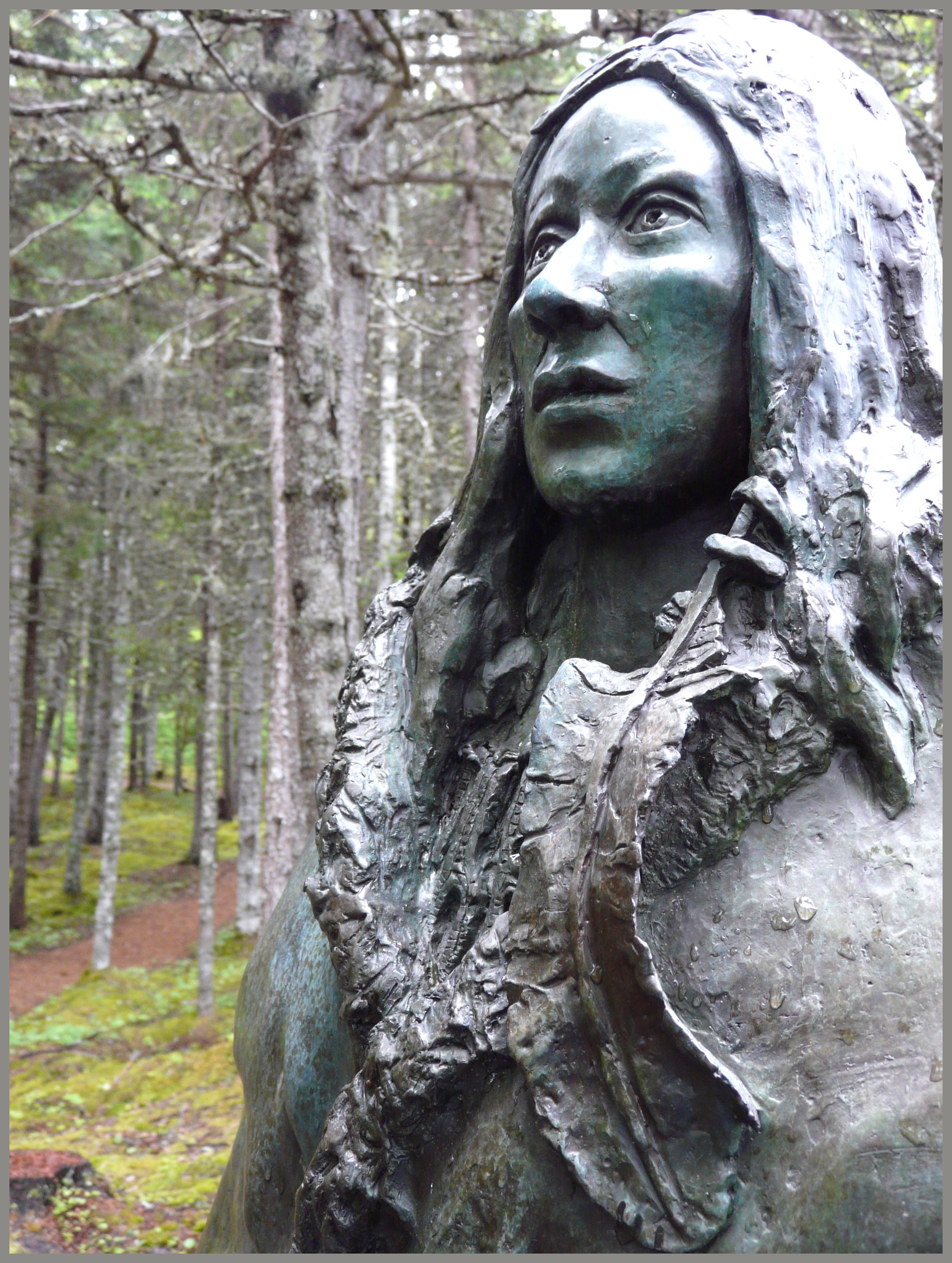 Shanawdithit, the spirit of the Beothuk died in 1829 and was the last of these aboriginal people of Newfoundland. Sculpture by George Spires seen at the Beothuk Interpretive Centre, Boyd's Cove, Newfoundland.